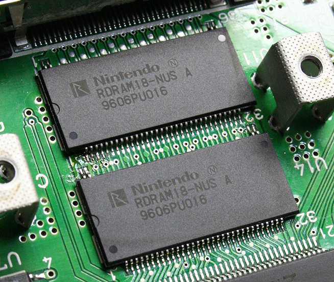 RDRAM18-NUS(RDRAM) on Nintendo64(NUS-001(JPN),PCB:NUS-CPU-01).